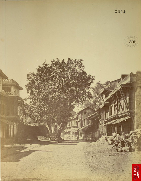 General view of the Mecca Gateway, Aurangabad.